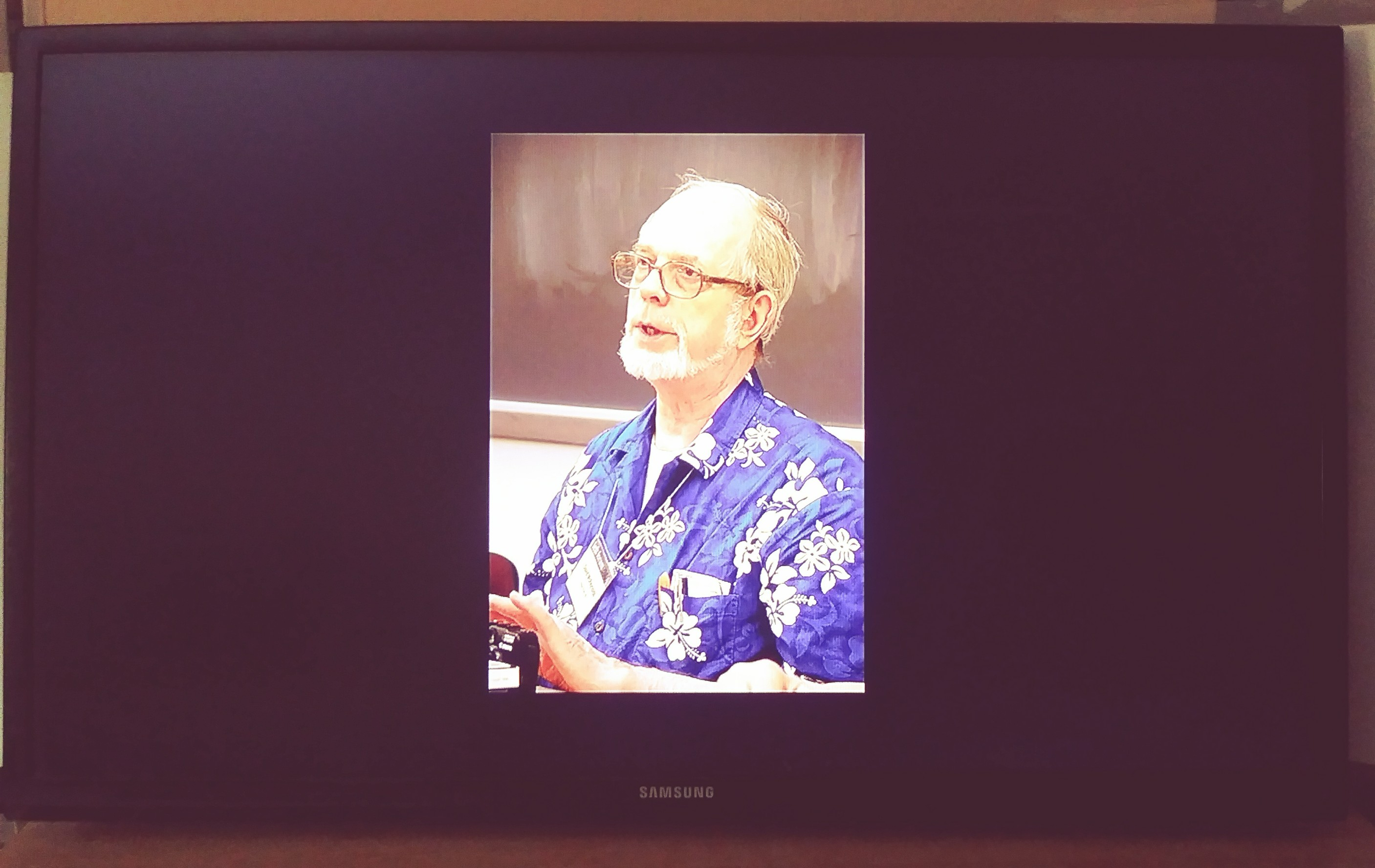 This is the flatscreen television set (Samsung model UN32EH4003F, serial number Z5QQ3CFCC26183Z) once owned by David McReynolds (David McReynolds; ru: Дэвид Макрейнольдс), which he gave to me in April 2018 (about 4 months before he died) after he had upgraded to another set. The image displayed on the screen is this photo of McReynolds from wiki commons